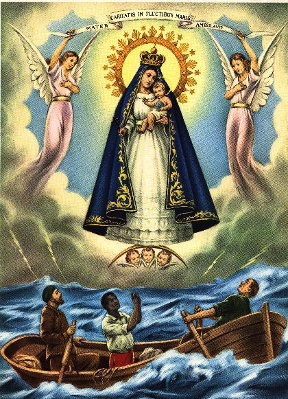 Our Lady of Charity (La Virgen de La Caridad). In Latin America, it is common to find other versions of this image, influenced by Santería, which portray a black Mary holding a black baby Jesus.